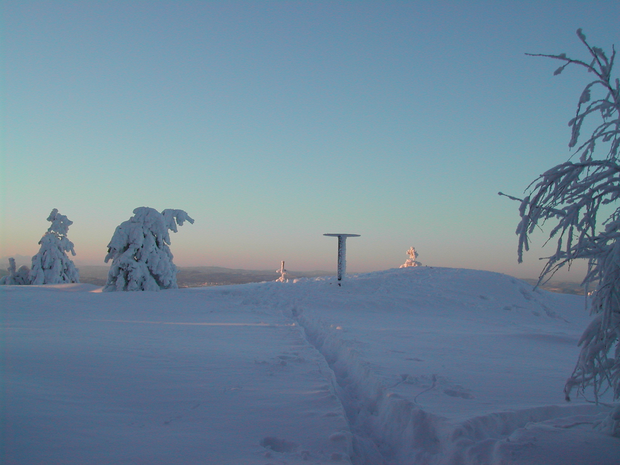 Picture of Bjønnåsen, Rælingen, Norway during the winter